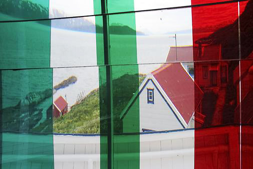 Hekkingen lighthouse outsite Tromsø, Norway.